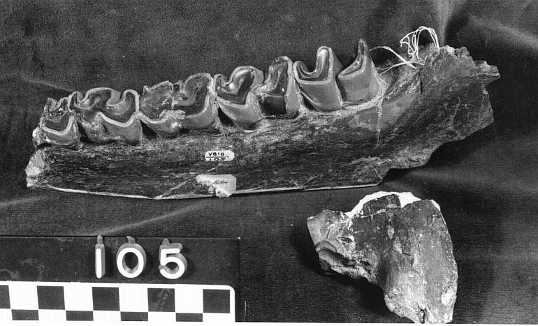 Diceratherium annectens jaw, University of California Museum of Paleontology